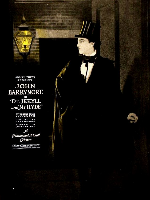 Ad for the American film Dr. Jekyll and Mr. Hyde (1920) with John Barrymore, page 3181 of the April 10, 1920 Motion Picture News.